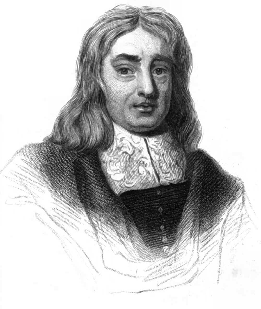 From here